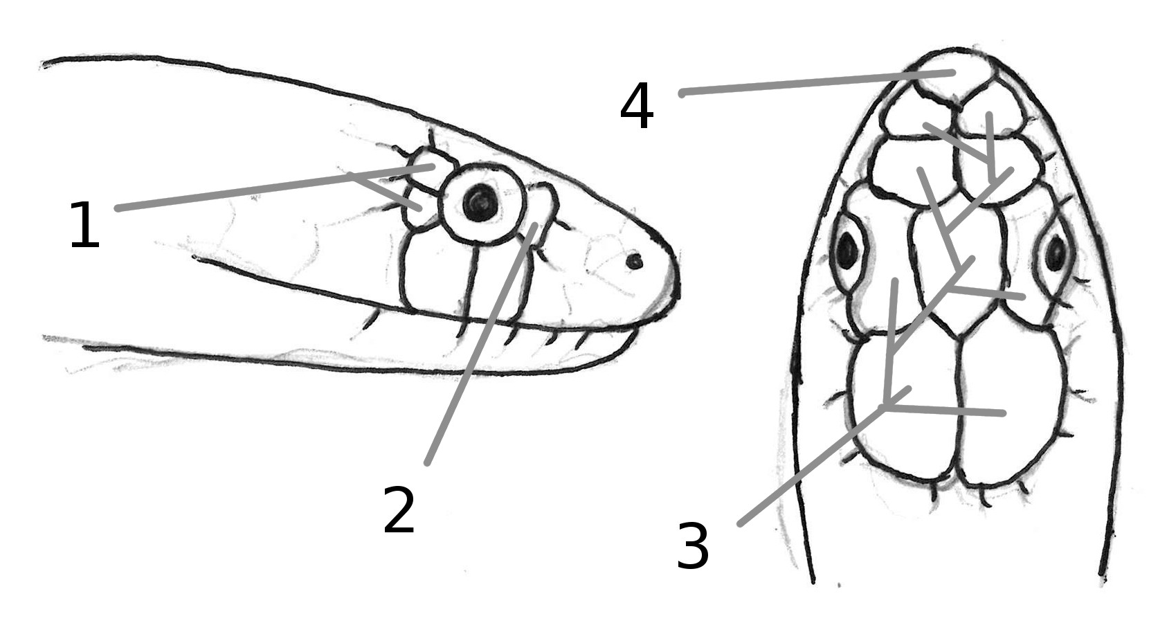 Head scales structure of Coronella austriaca